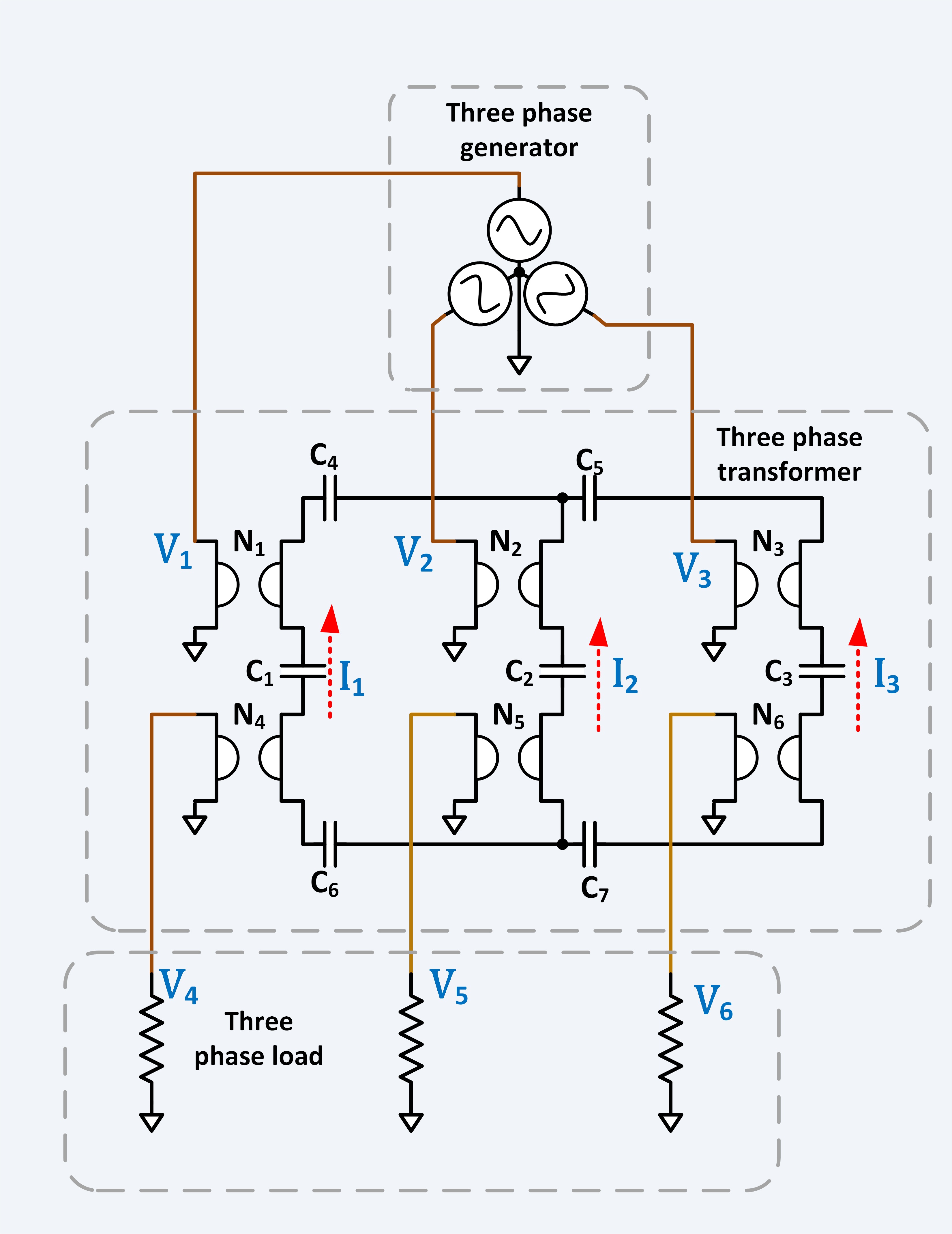 The schematic resulting from applying the gyrator capacitor approach to a three phase transformer composed of six windings and seven permeance elements.